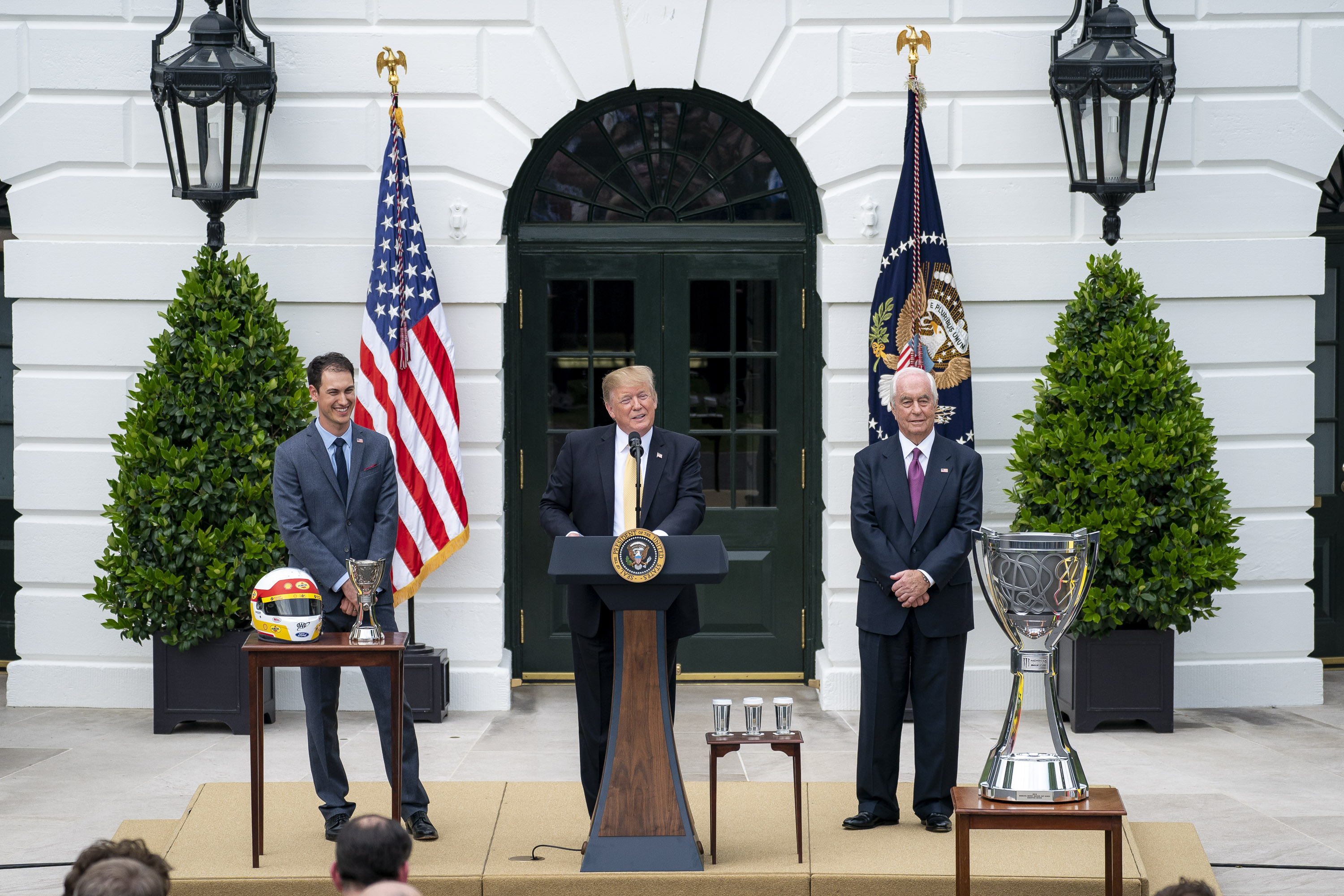 President Donald J. Trump honors 2018 NASCAR Cup Series Champion Joey Logano and team Penske owner Roger Penske Tuesday, April 30, 2019, on the South lawn of the White House. (Official White House Photo by Shealah Craighead)